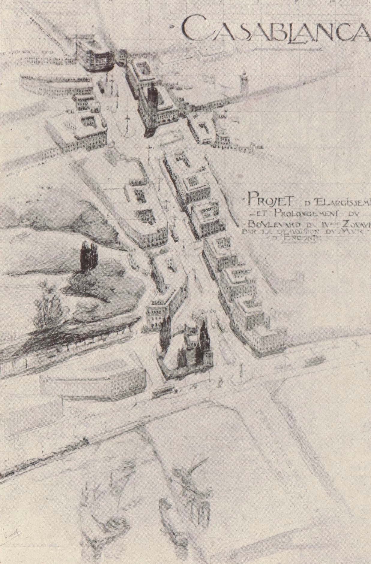 Overhead rendering plans for Casablanca's 4éme Zouaves Street (now Félix Houphouët-Boigny Street), Henri Prost 1914, image published in the monthly illustrated magazine France-Maroc, dated August 15, 1917